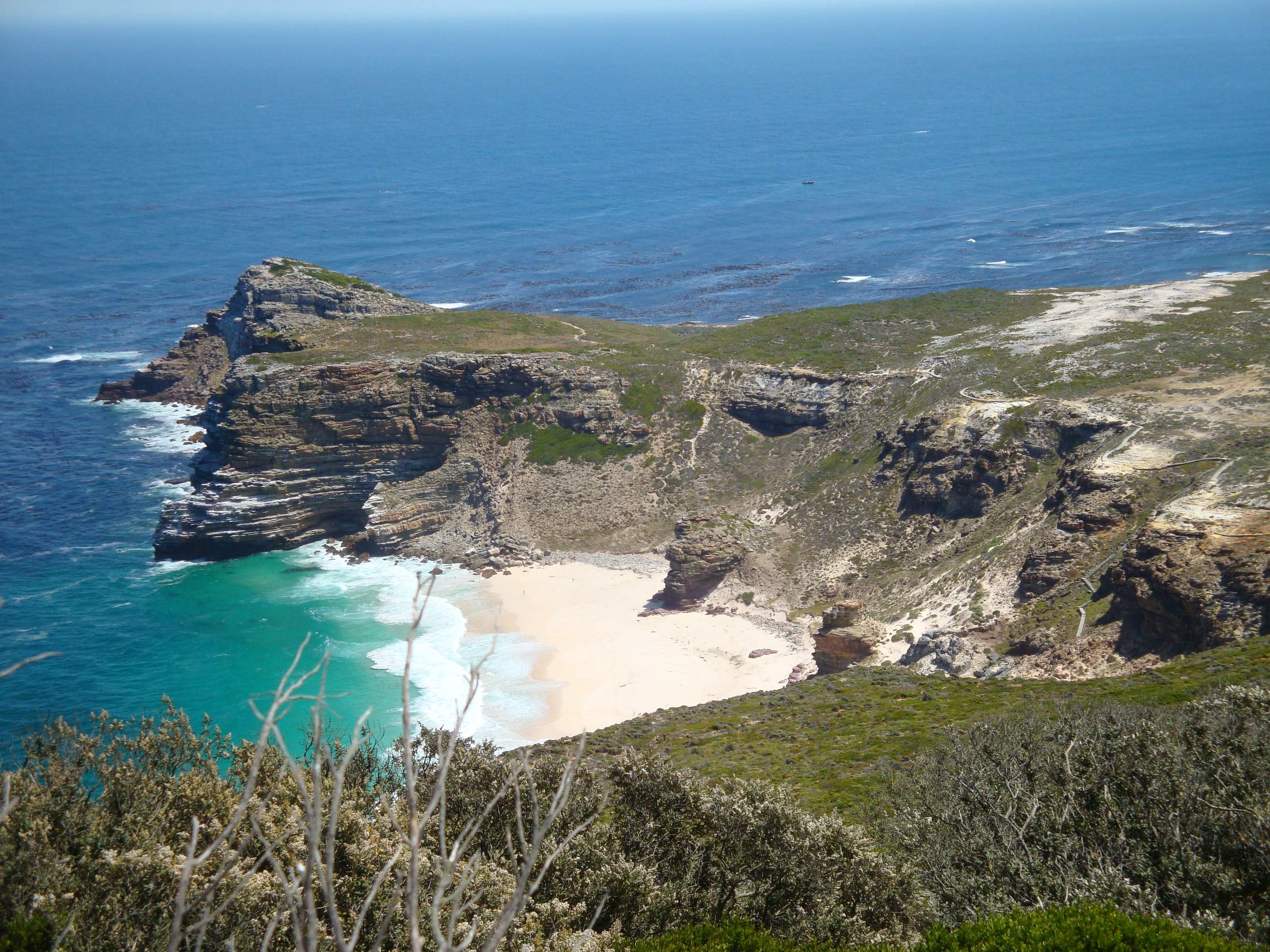 Cape Pennisula, South Afrca